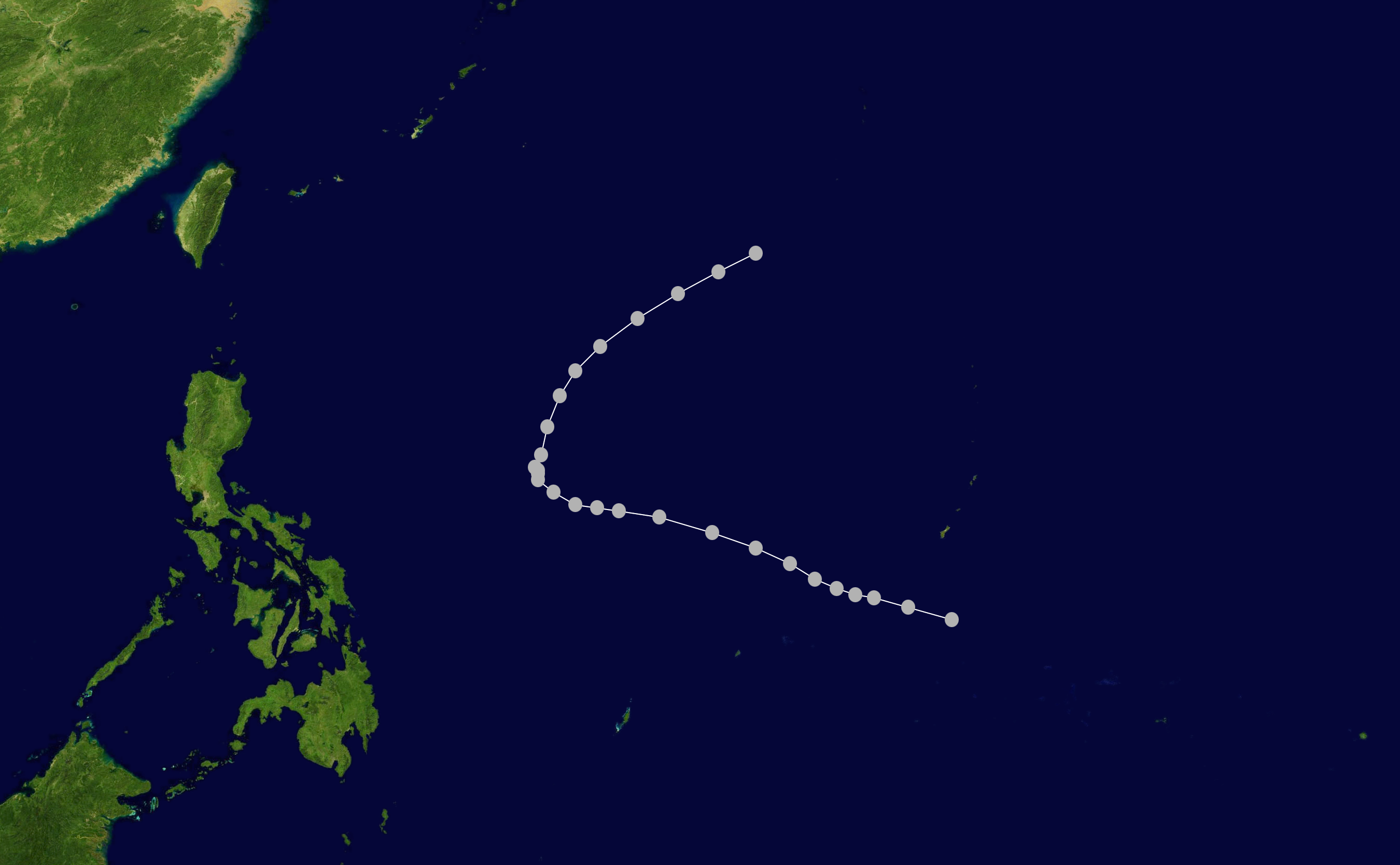 Track of 26-W from December 5, 1939 through December 12, 1939. Due to the age at witch this storm was observed from, one cannot rely on this track to be 100% accurate, but rather just a reference as to where the storm happened and the relative direction it traveled.